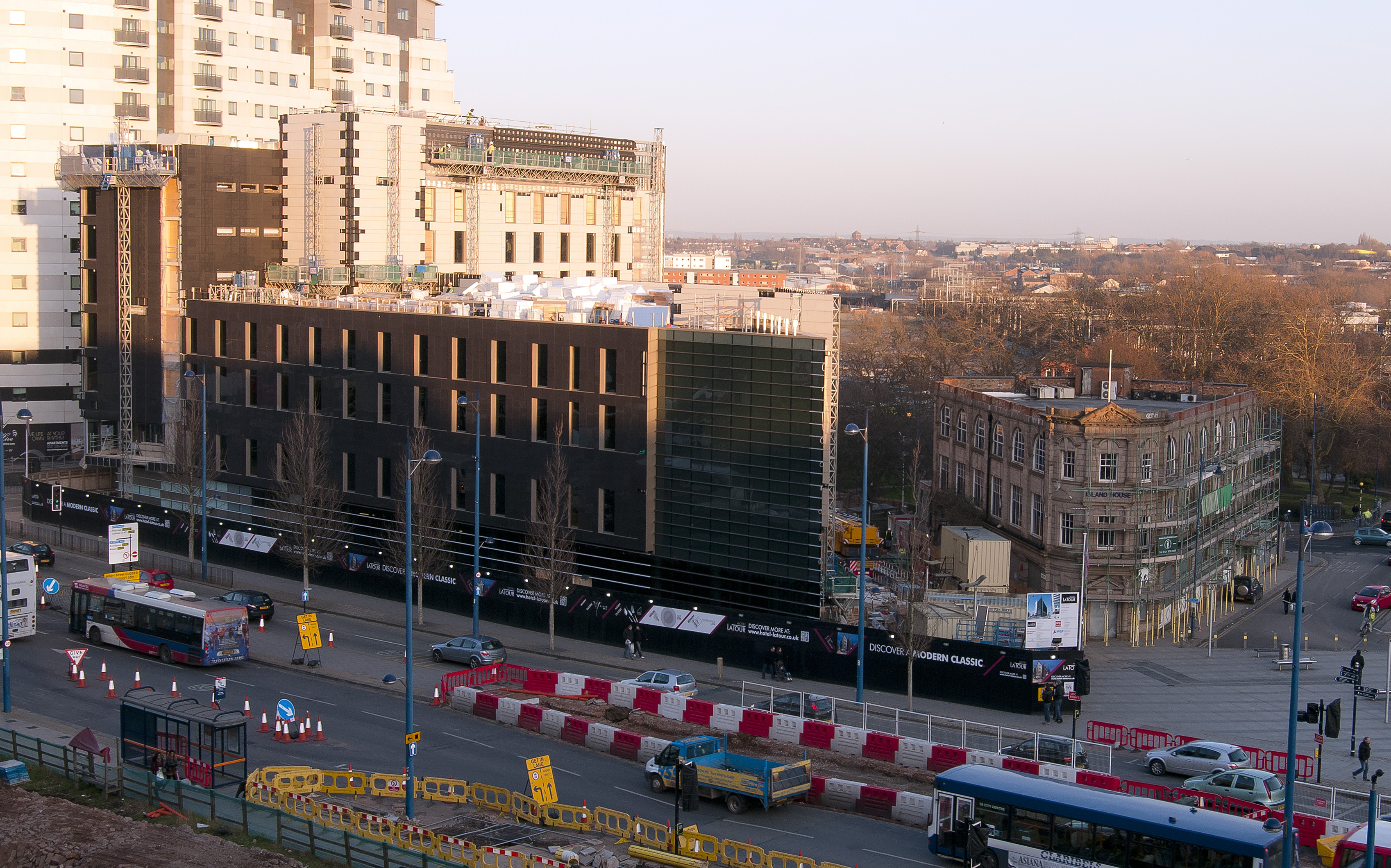 Hotel La Tour and Island House on Moor Street Queensway, Birmingham, UK. This photo was taken shortly before construction was completed of the Hotel La Tour and before the Edwardian building Island House was demolished by developers Quintain.